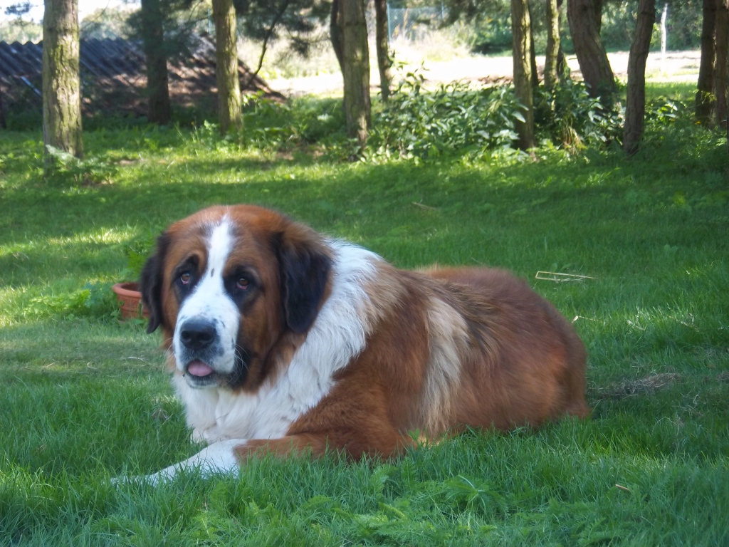 Gaia1